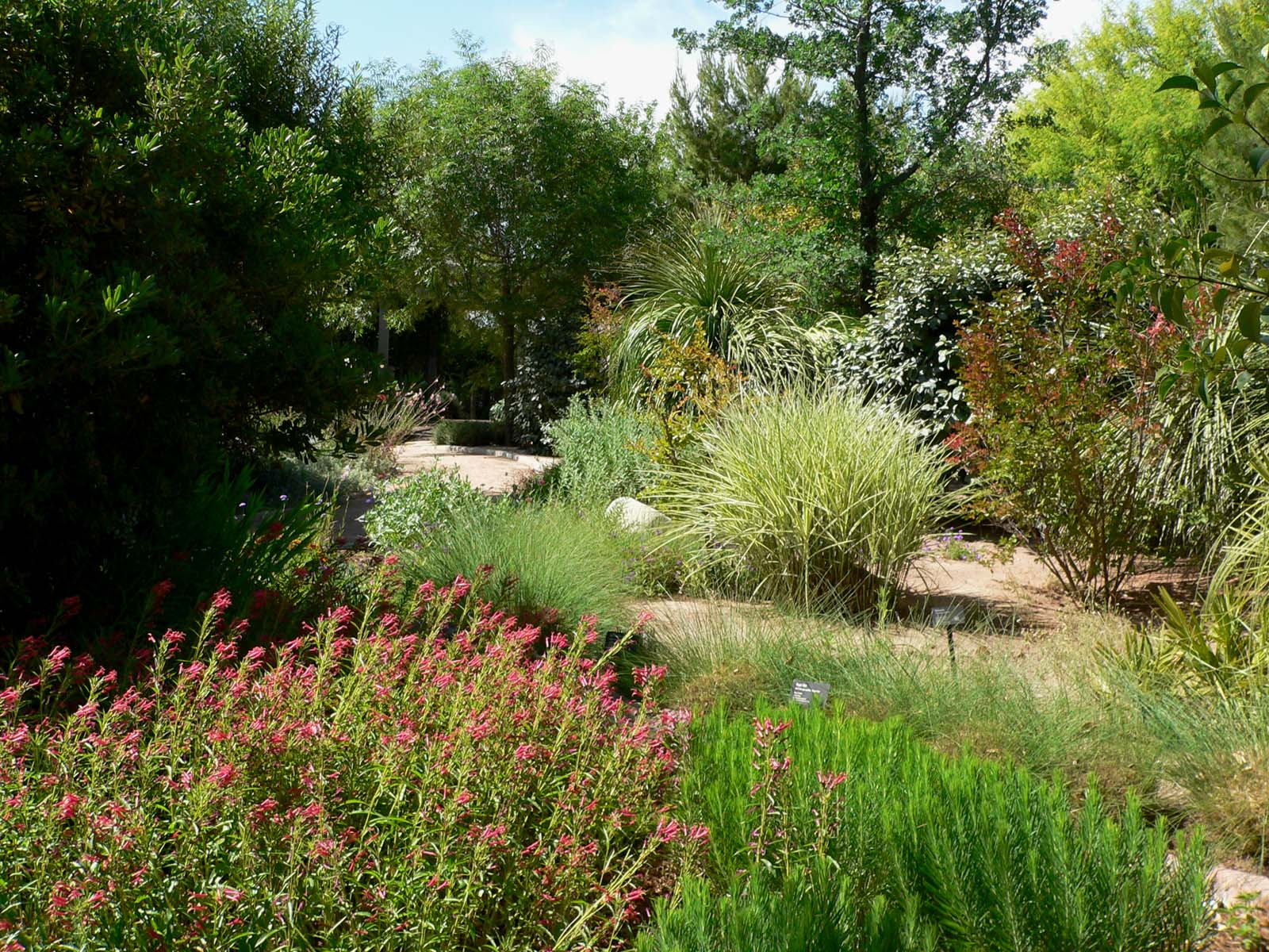 Photo of plants at the Springs Preserve garden in Las Vegas, Nevada